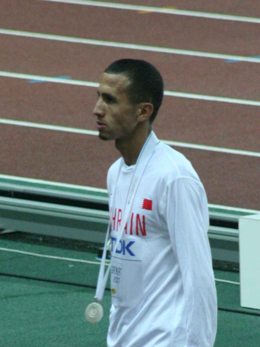 World Athletics Championships 2007 in Osaka - Runner Rashid Ramzi (Bahrein) with his silver medal after the victory ceremony fo the men*s 1500 metres